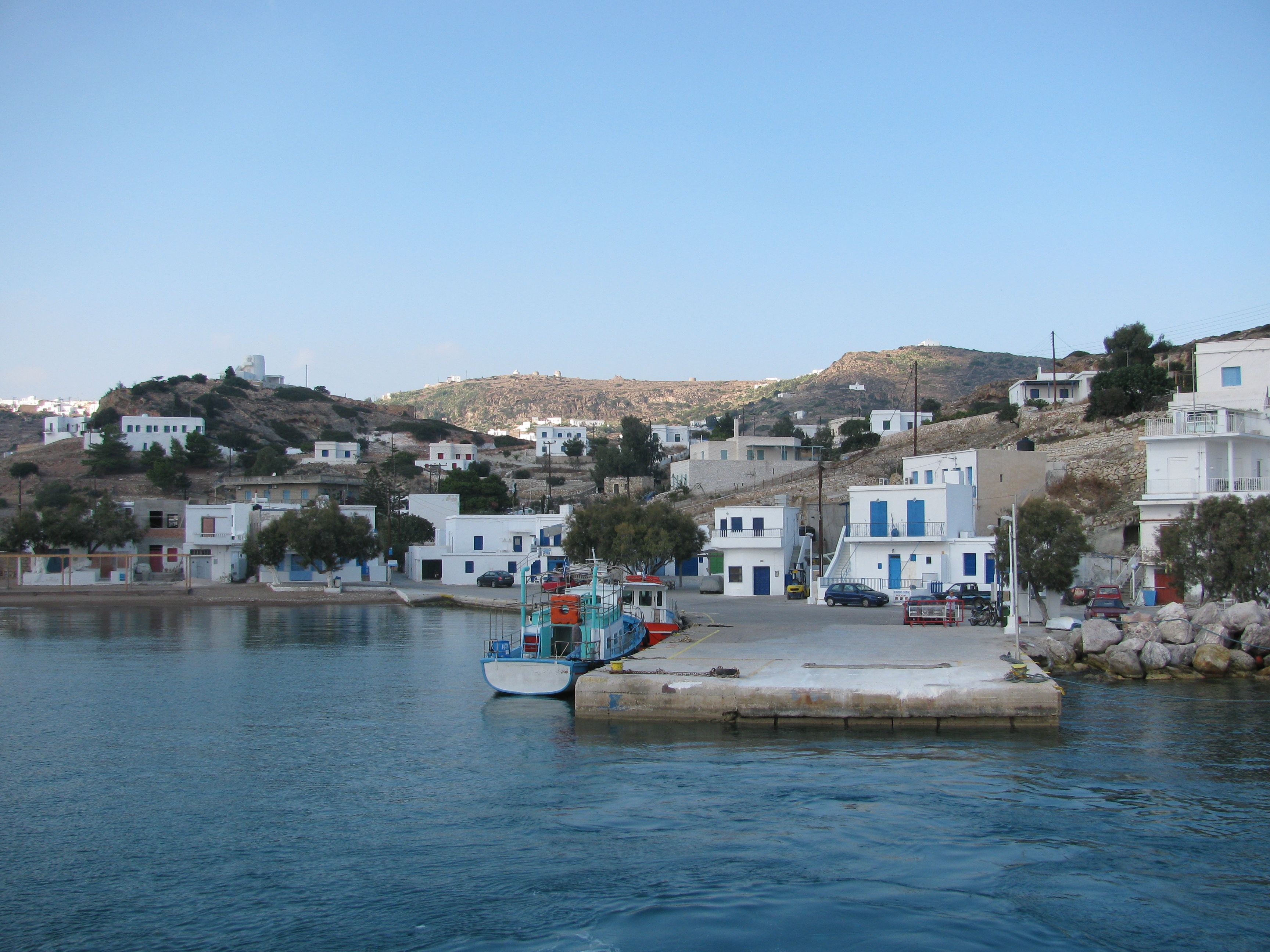 Psathi, Port village of Kimolos in 2008, seen from the ferry